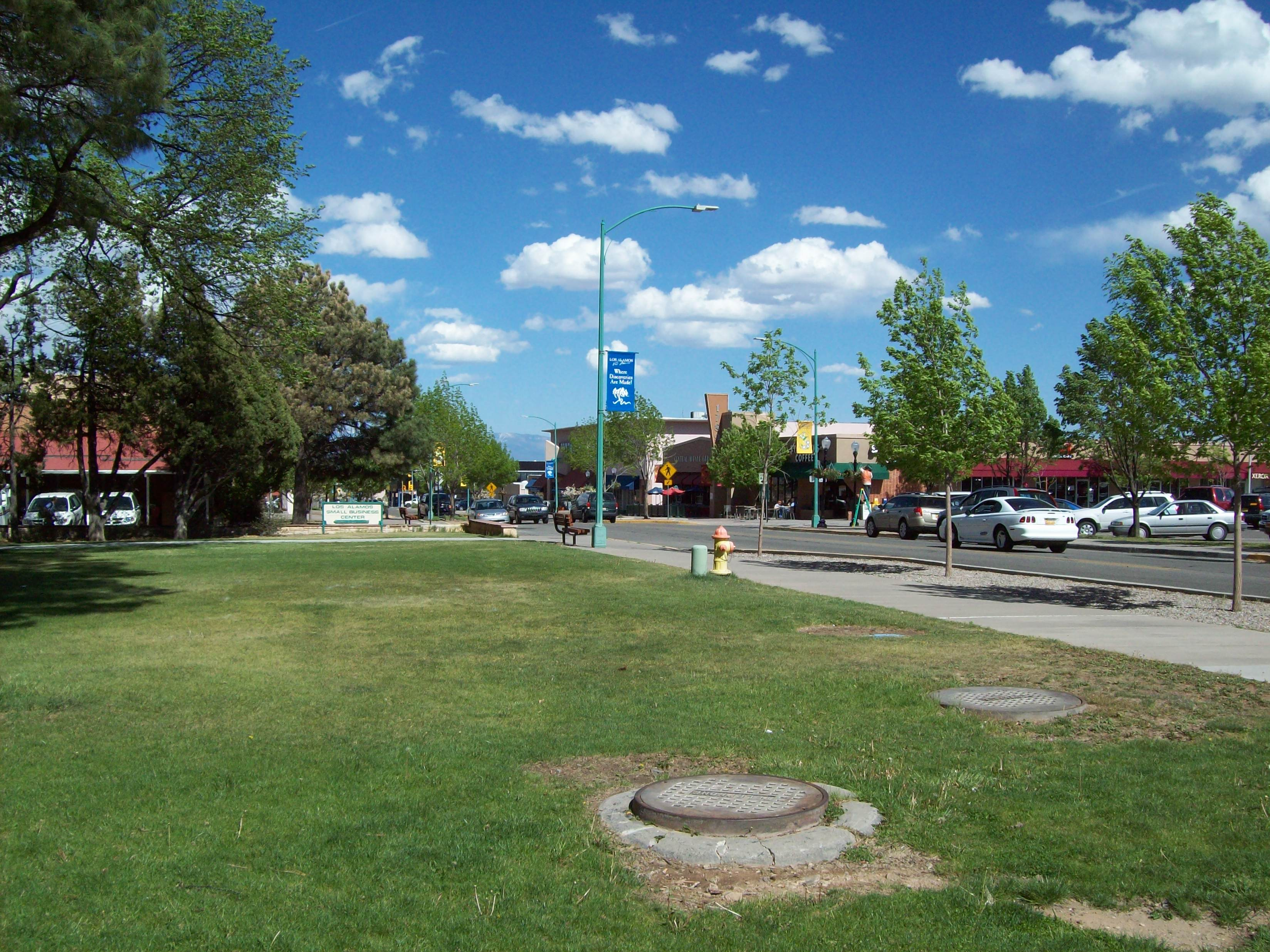 A photographical view of downtown Los Alamos, NM.